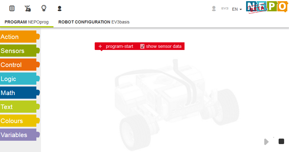 Open Roberta Lab, v1.4.0